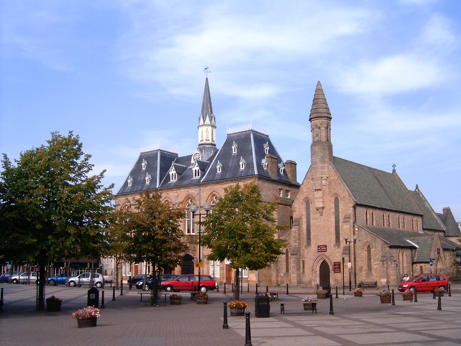 Town Hall (left) and St Anne's parish church (right), Bishop Auckland, County Durham, seen from the southwest